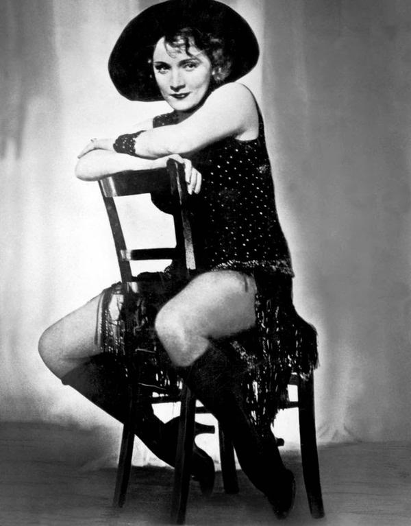 Promotional still from the 1930 film The Blue Angel, published in National Board of Review Magazine